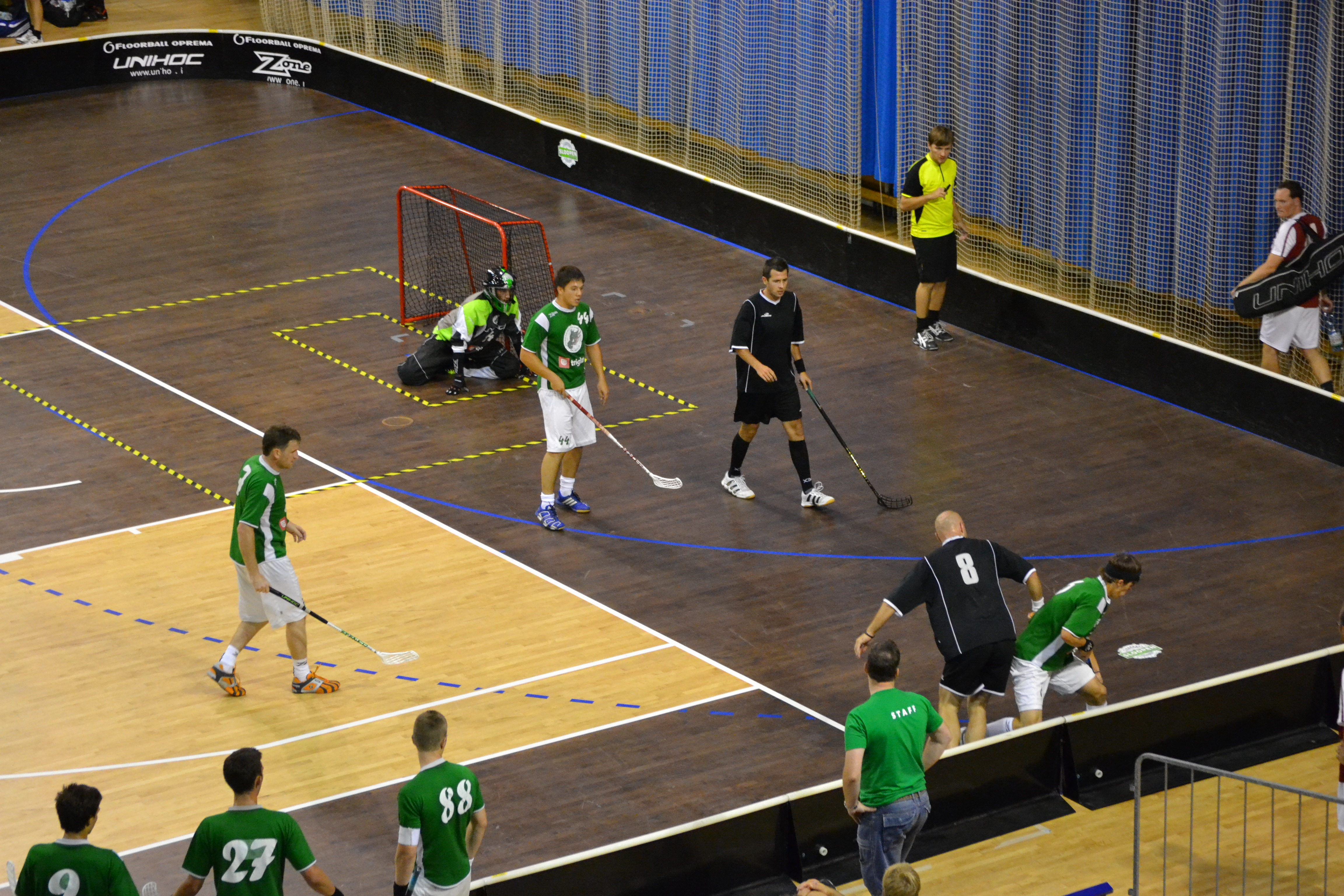 Olimpija Ljubljana vs Man in black on Slo open 2012